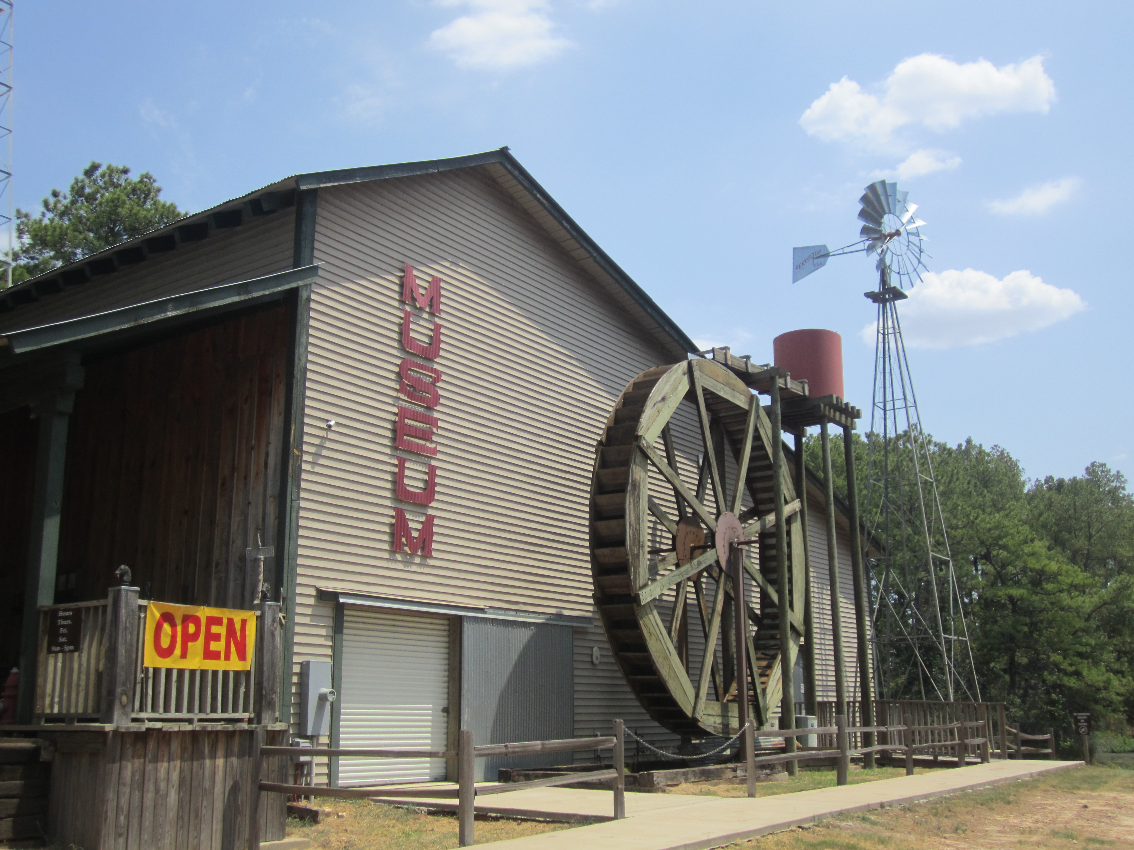 I took photo with Canon camera of Old Mill Museum in Lindale, TX.